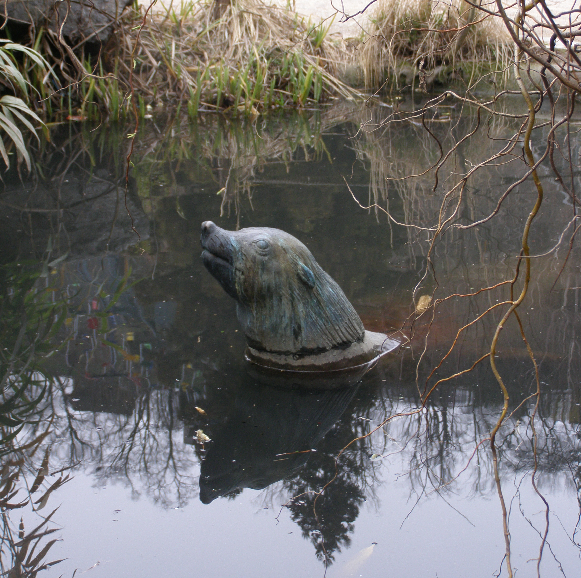 Memorial of the famous seal Gaston in Prague Zoo.